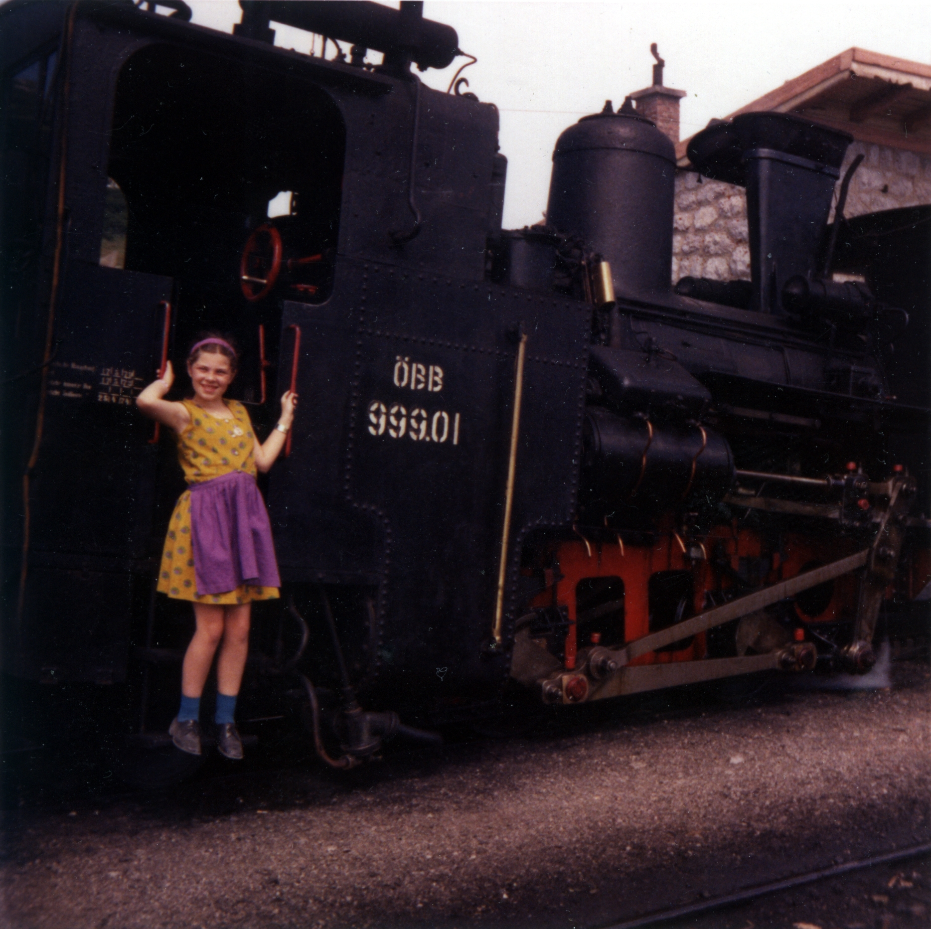 Pictured is a SKGLB Z, to be more specific the ÖBB 999.01 which was built in 1897. This picture must have been taken after 1953, because before that this loco was known as "Schneebergbahn 1" (1897-1937), "BBÖ Zz.1" (1937-1938), "DRB 99 7301" (1938-1945) and "ÖStB 99.7301" (1945-1953). The loco is now owned by NÖSchBB (the "Niederösterreichische Schneebergbahnen") and is located in Puchberg am Schneeberg, Austria. Today it is nicknamed "Kaiserstein" and only in use for nostalgic purposes. It was last in service in October 2000.